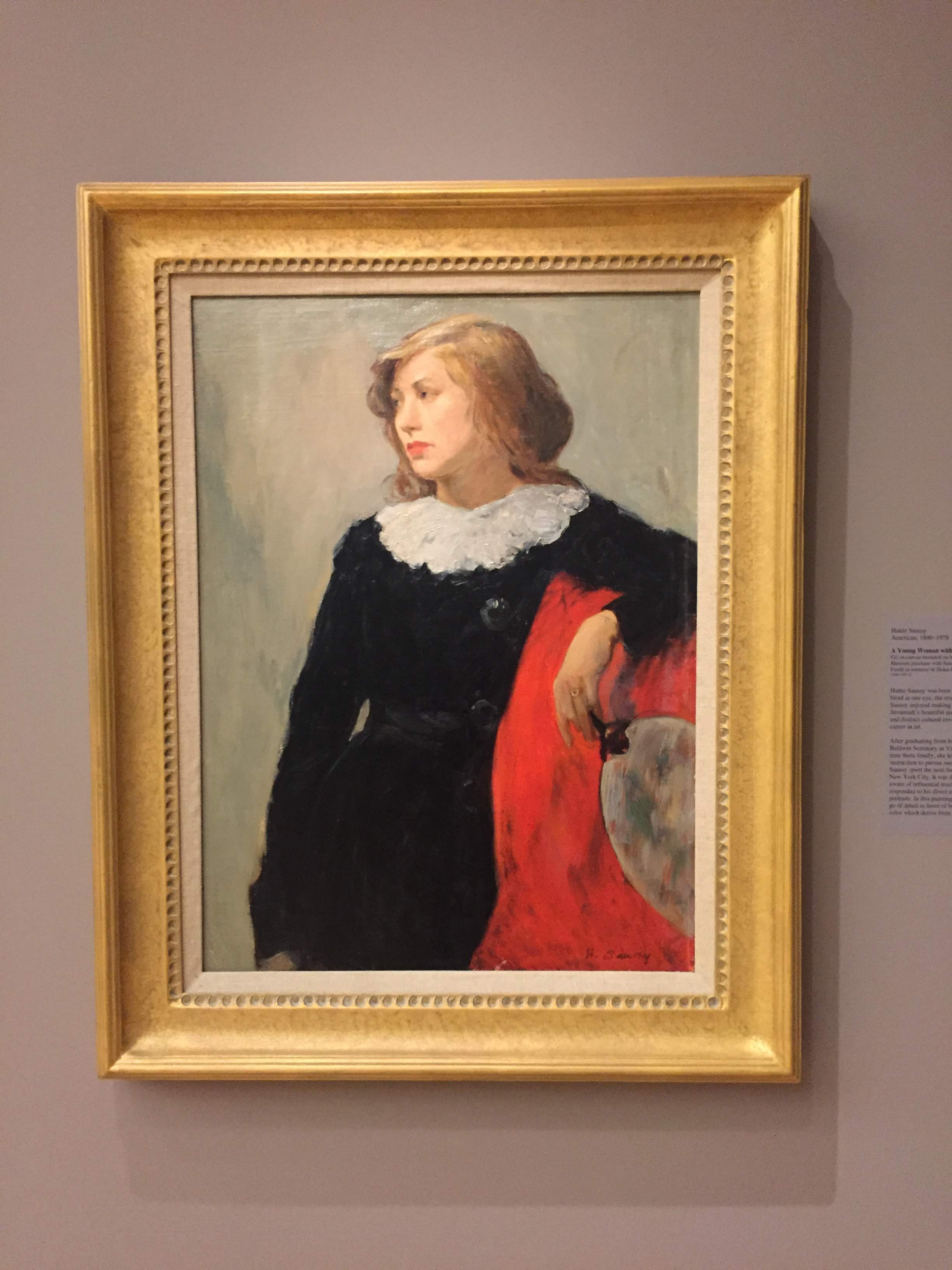 A Young Woman with Fan by Hattie Saussy (c. 1930); oil on canvas mounted on board. Located in the Columbia Museum of Art (Columbia, South Carolina).